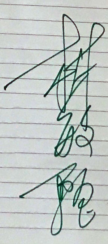 This is Lam Man Chung's signature.